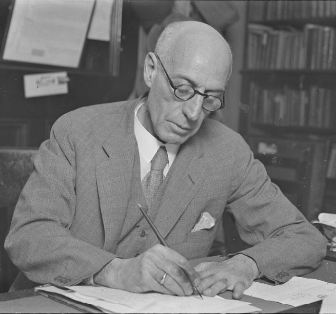 Ernest Samuel Marks at his desk, circa 1930. Marks was Lord Mayor of Sydney at this time.